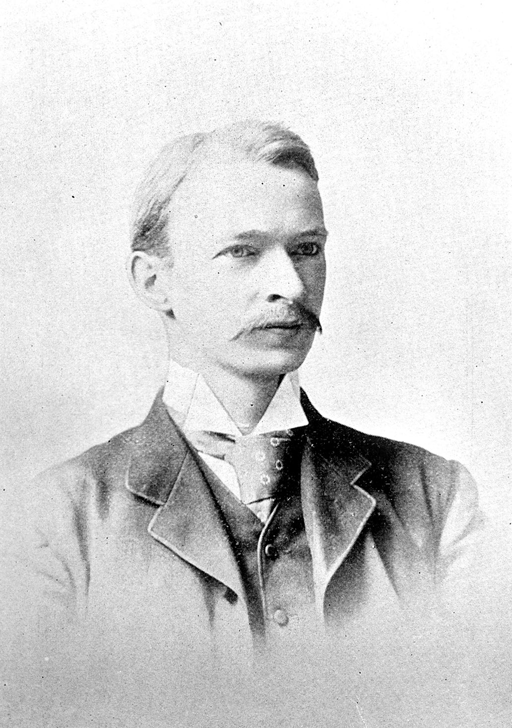 Portrait of Frederick B. Fetherstonhaugh, circa 1891